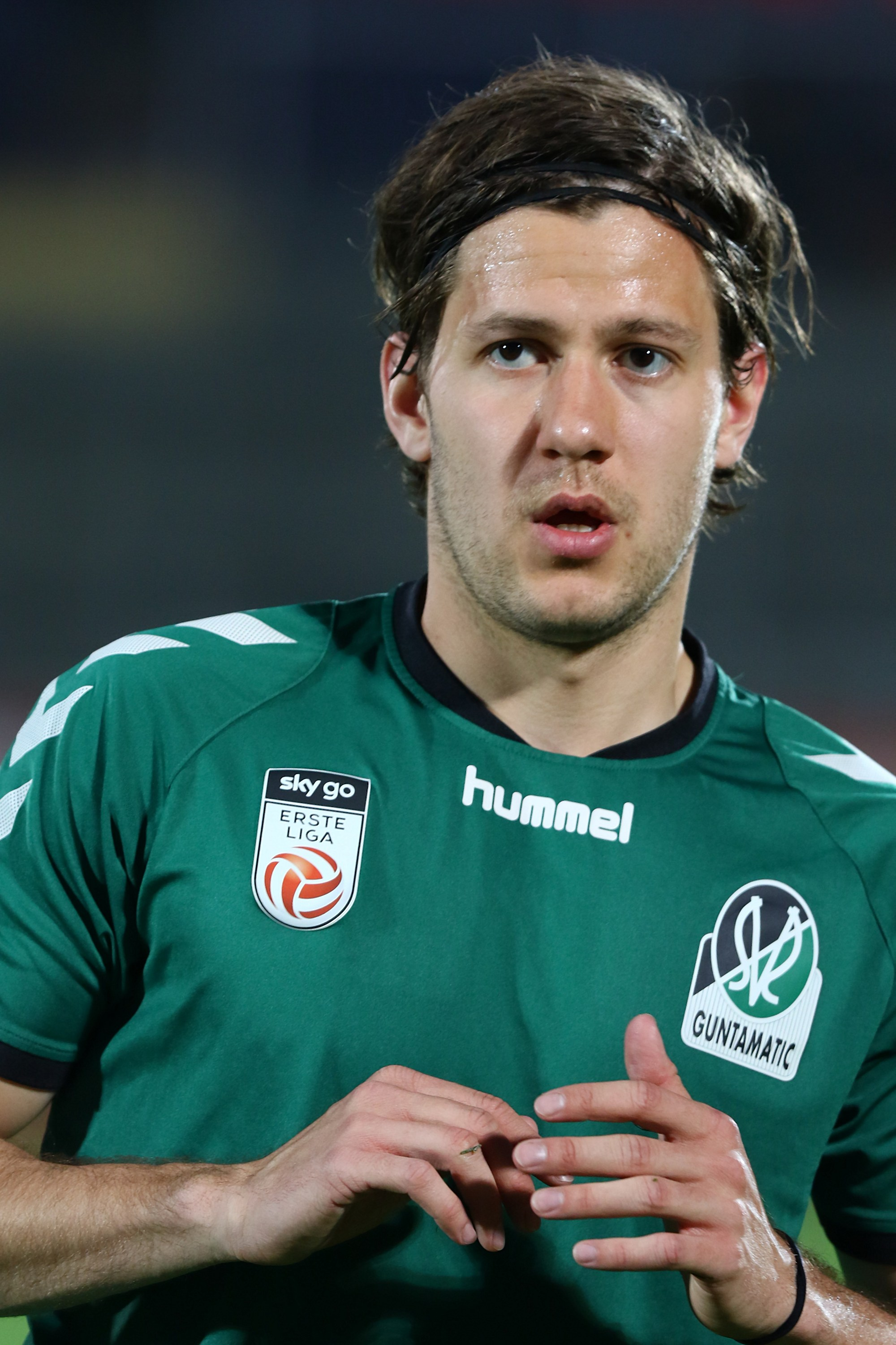 Football-championship Erste Liga 2017–18 - SC Wiener Neustadt (white shirts) vs. SV Ried (red shirts) 1-0. – The photo shows Peter Harin